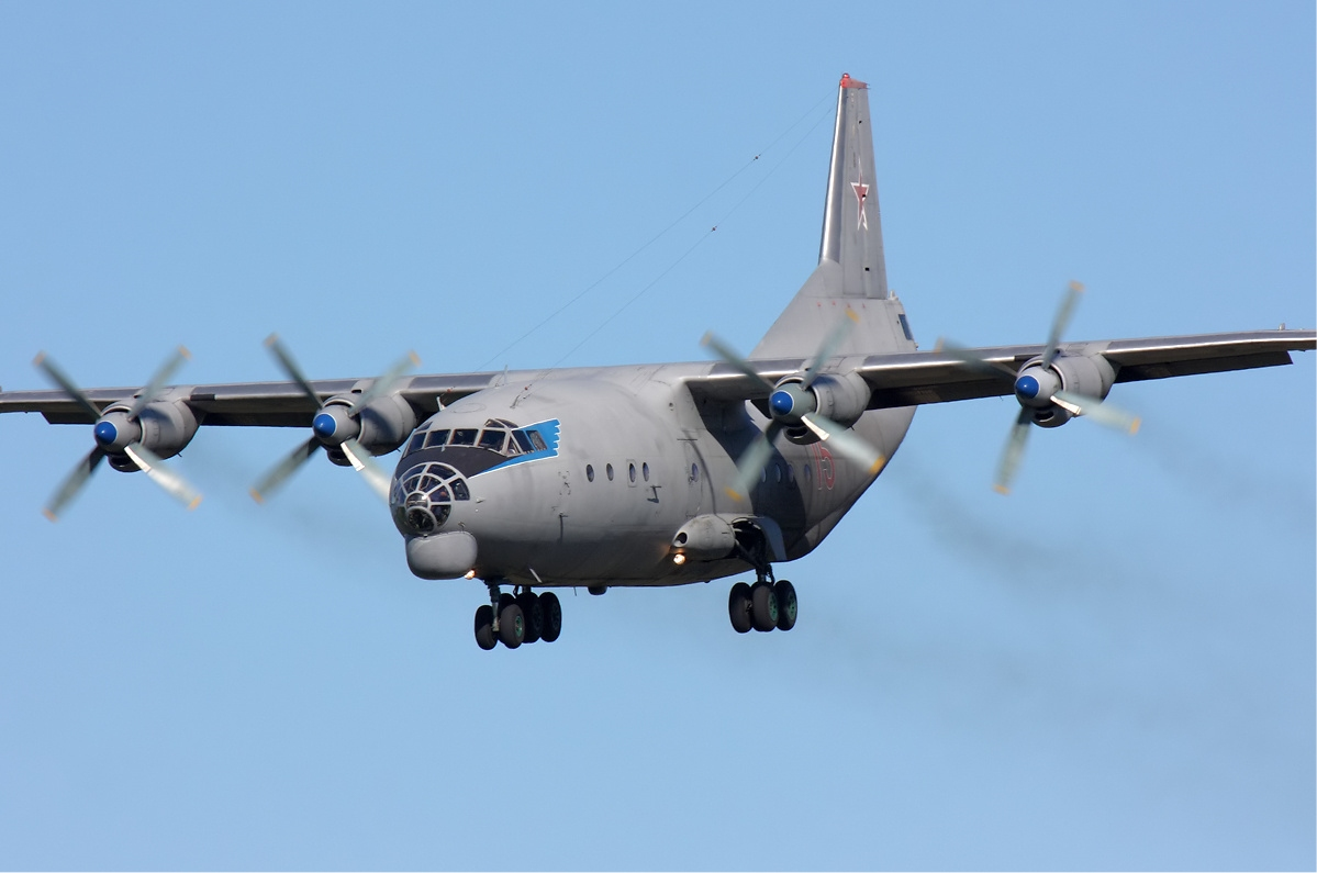 Russian Air Force Antonov An-12